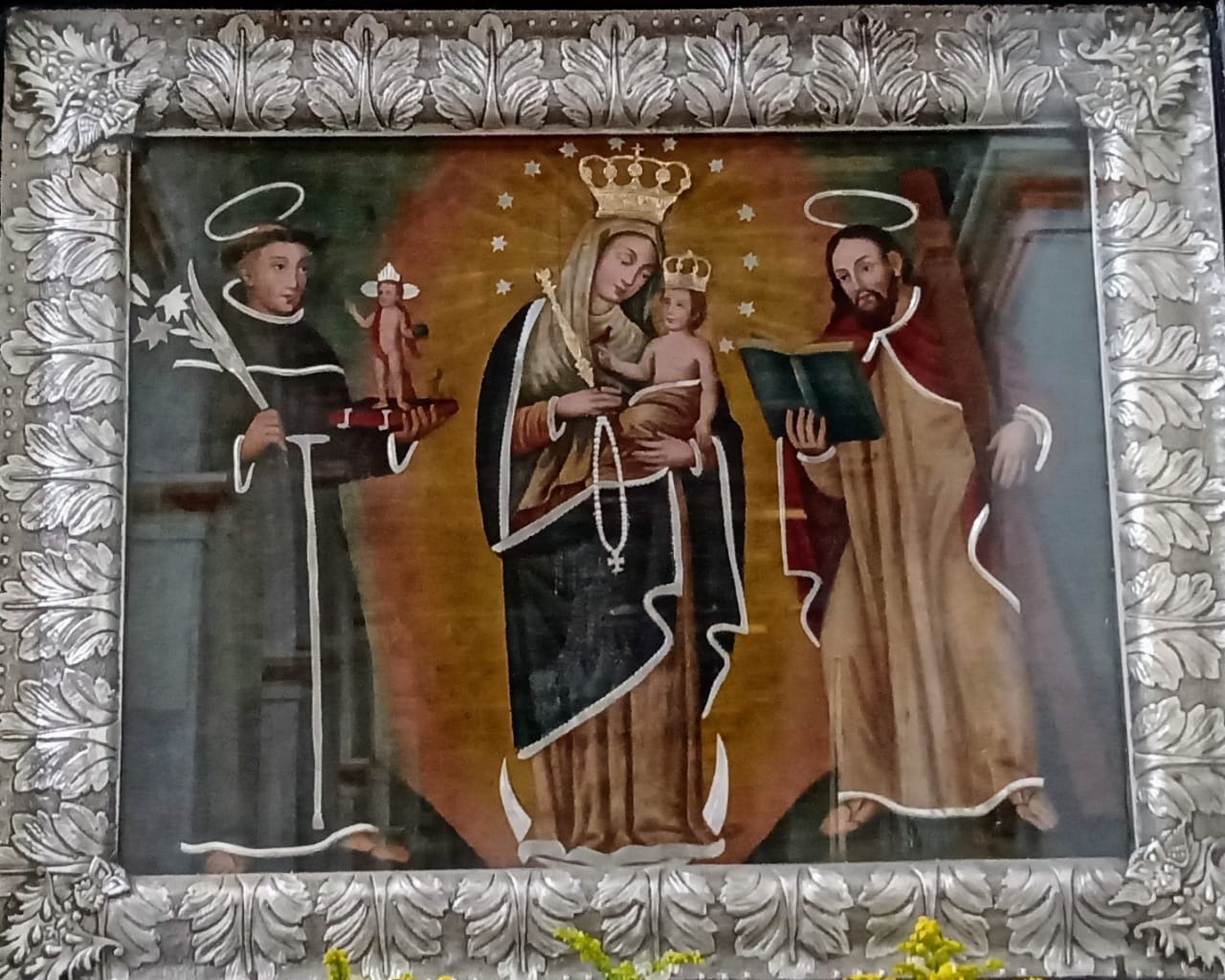 Pintura de la Virgen de Chiquinquirá, Patrona de la Catedral de Santa Rosa de Osos